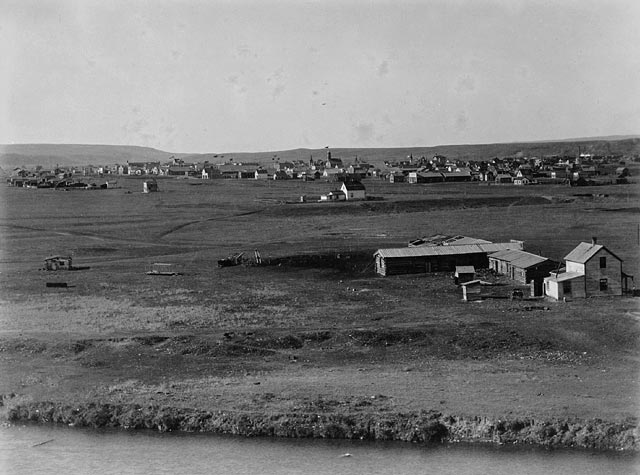 Calgary, Alberta from the Elbow River looking westward (Item part of: Eva Davies collection)